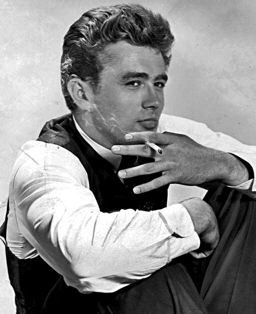 Publicity photo of James Dean